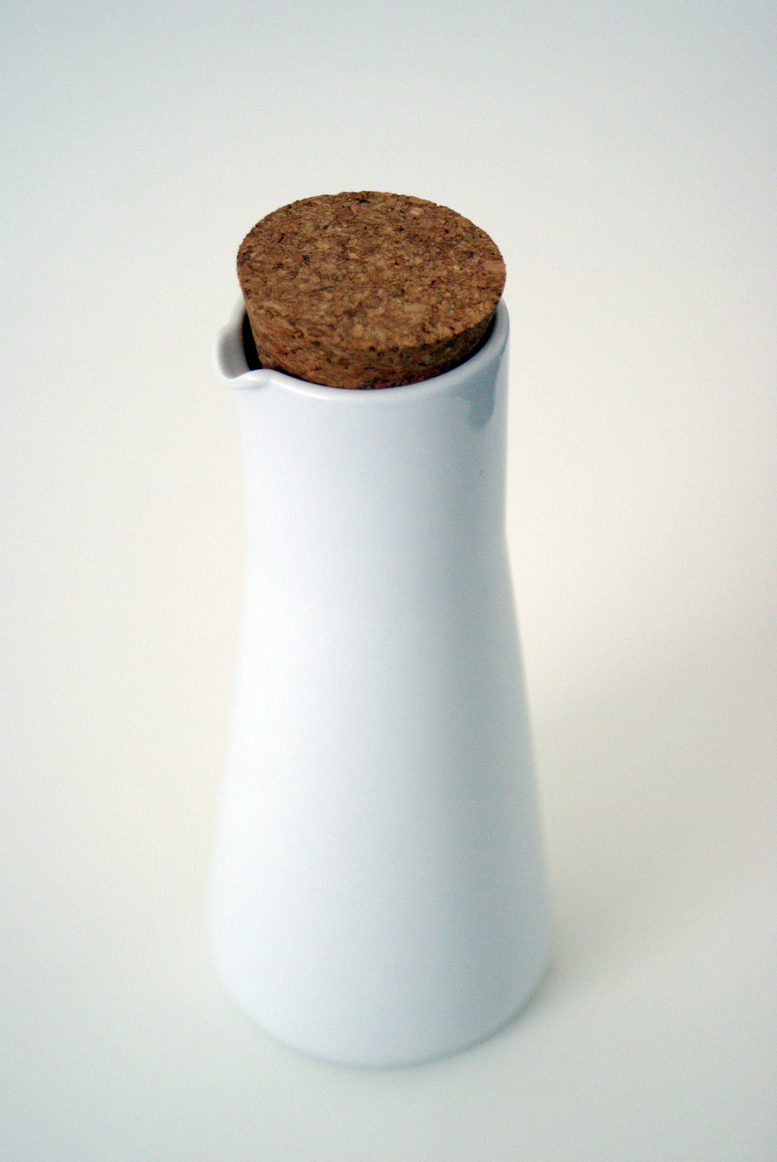 An IKEA jug with a cork stopper.